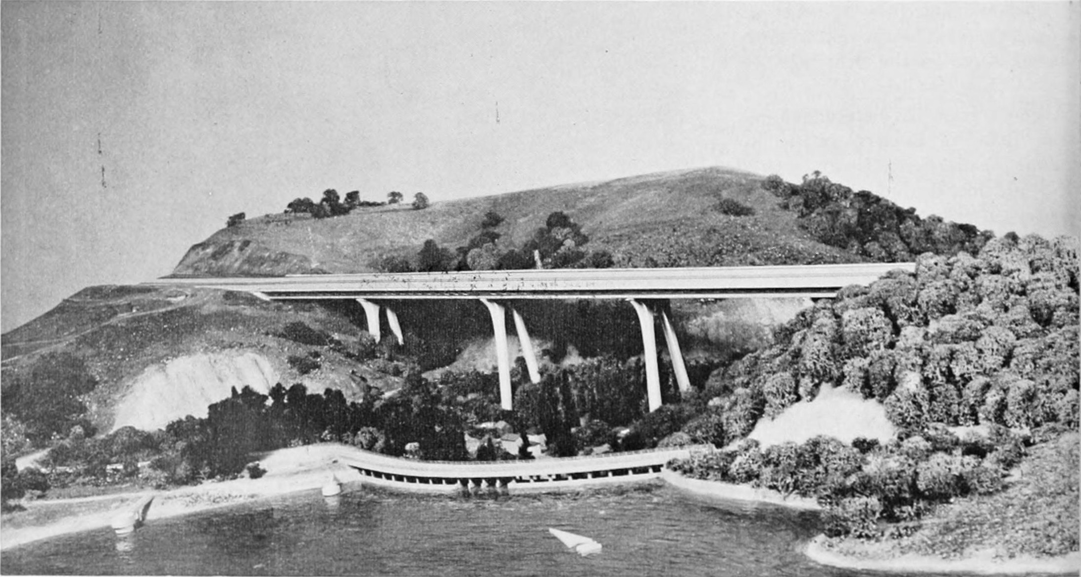 Model of the Doran Memorial Bridge. Caption: This is a Bridge Department model of the proposed eight-lane bridge over San Mateo Creek as Interstate Route 280. Note the graceful concrete columns supporting the slim steel roadway which blends into the surrounding area. Crystal Springs Dam is shown in the foreground.